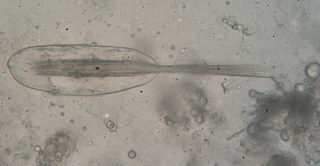 Shows calcium oxalate needle crystals (raphides) in an idioblast sac 600x